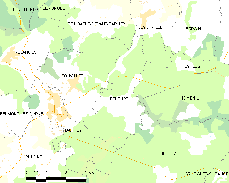 Map of French municipality Belrupt